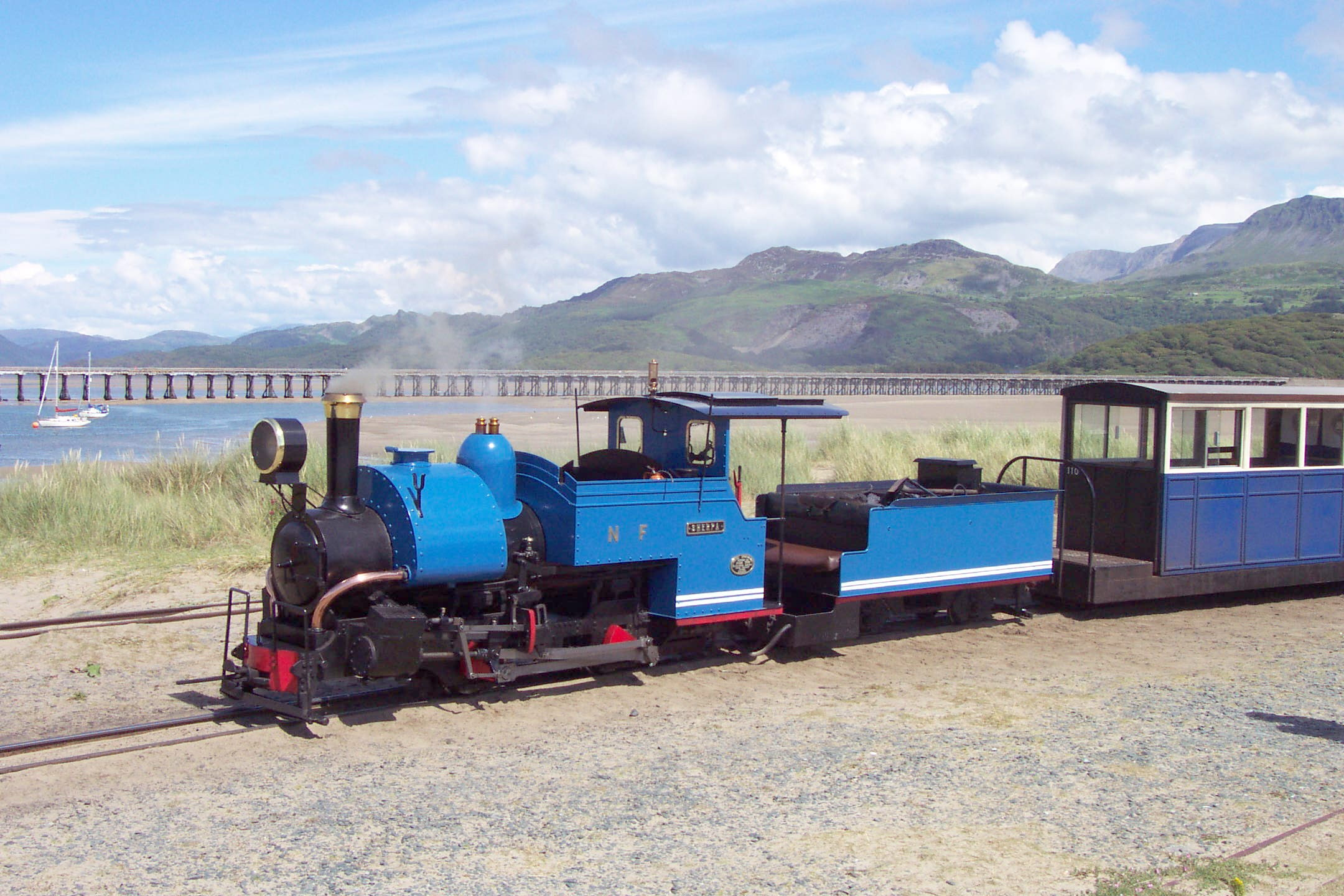 Fairbourne Railway locomotive 'Sherpa' based on Darjeeling Himalayan Railway B Class Tank.